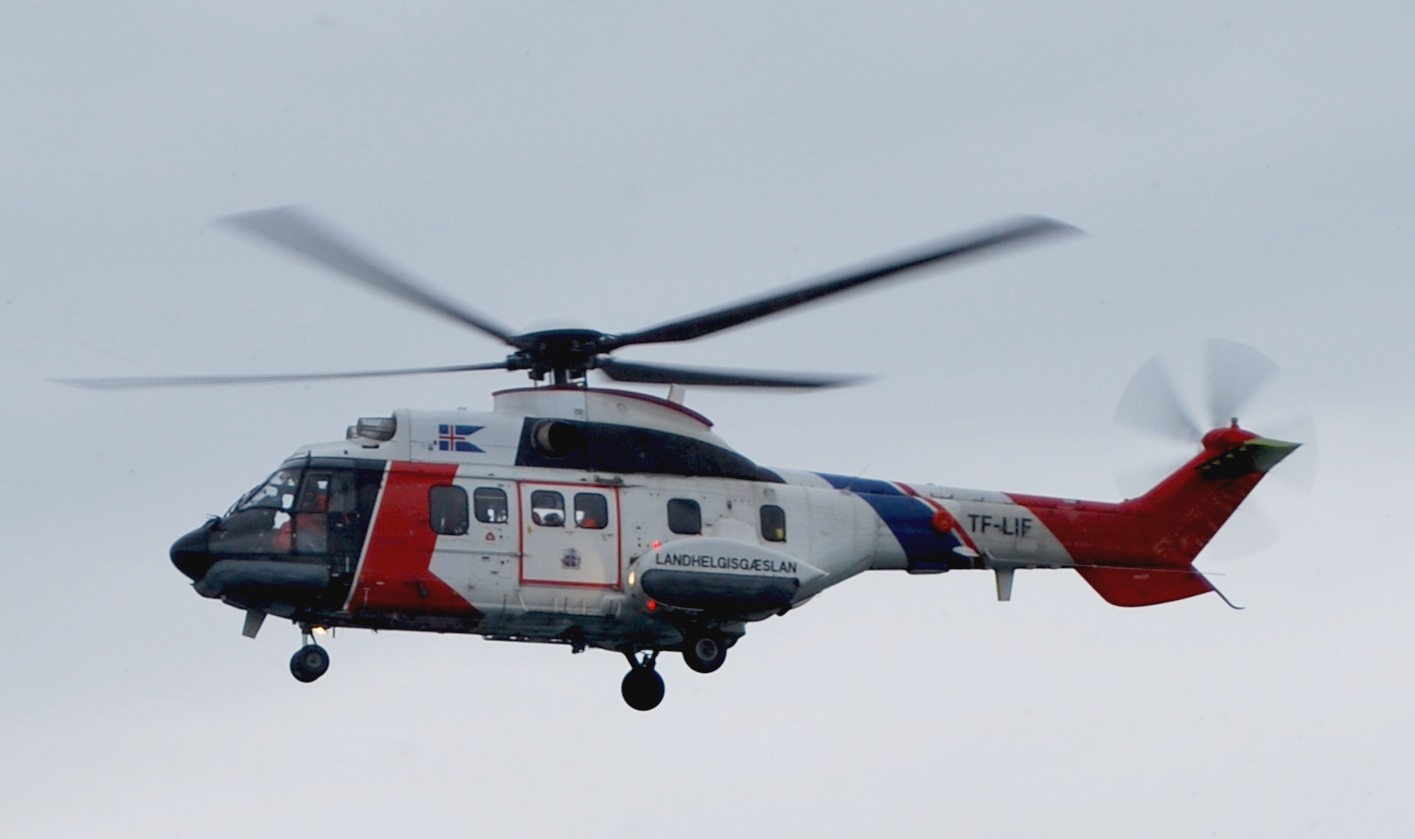 Icelandic Coast Guard (Landhelgisgæslan) helicopter TI-LIF, an Aérospatiale AS 332 "Super Puma", in a training/demonstration mission at lake Úlfljótsvatn